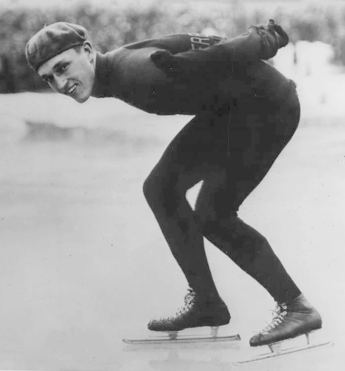 1934 Press Photo Leo Freisinger Natl Speed Skating chamo at Minneapolis MN